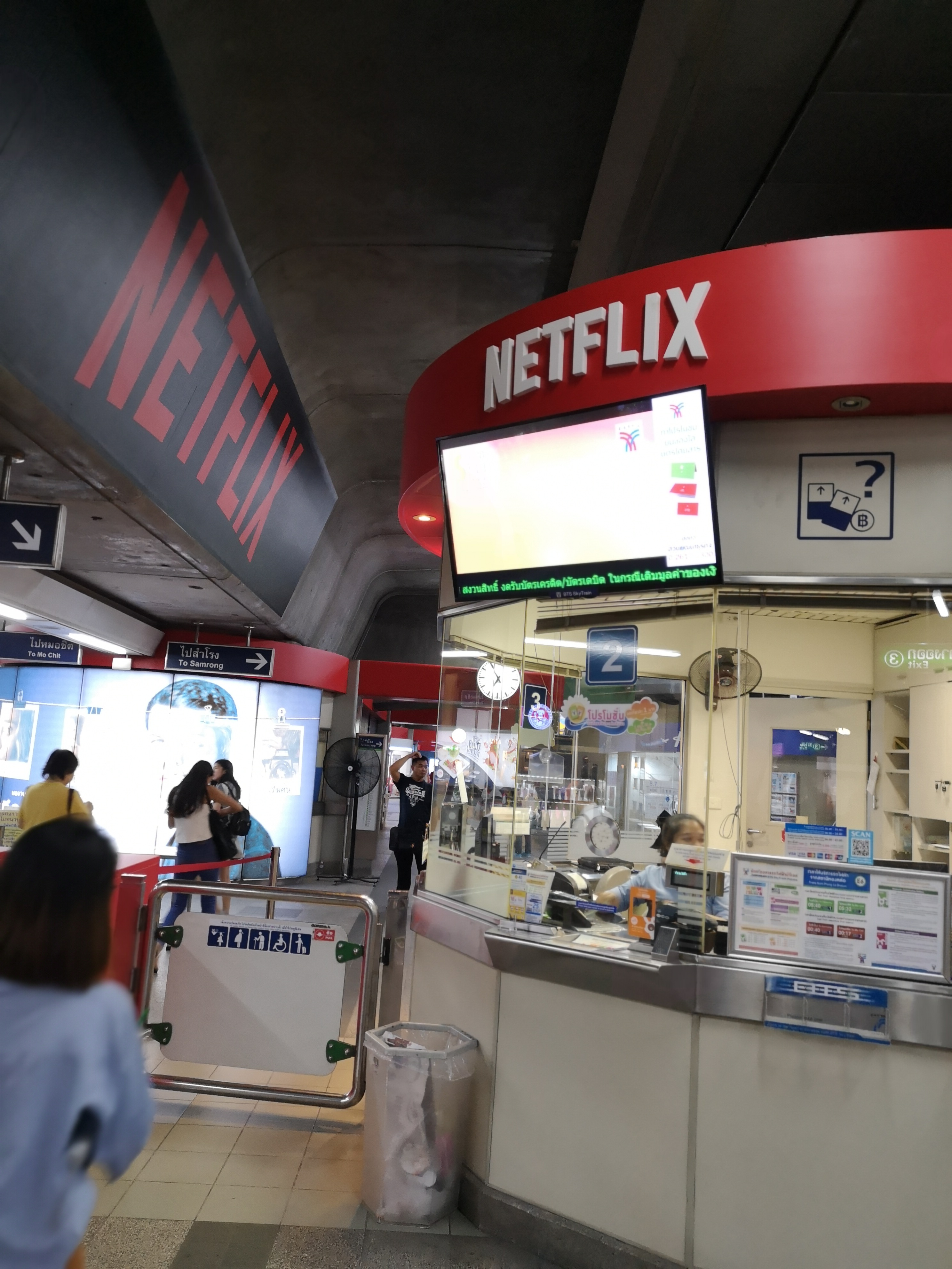 A sign of Netflix at BTS' Thong Lor,Bangkok.